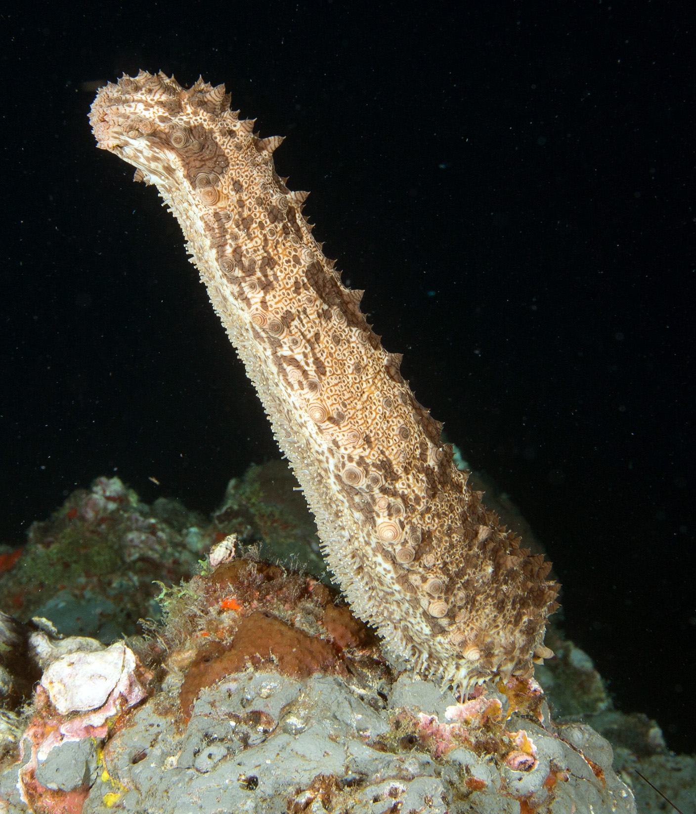 An image of sea cucumber Actinopyga agassizii, commonly called five-toothed sea cucumber or West Indian sea cucumber. It is assuming a spawning posture.